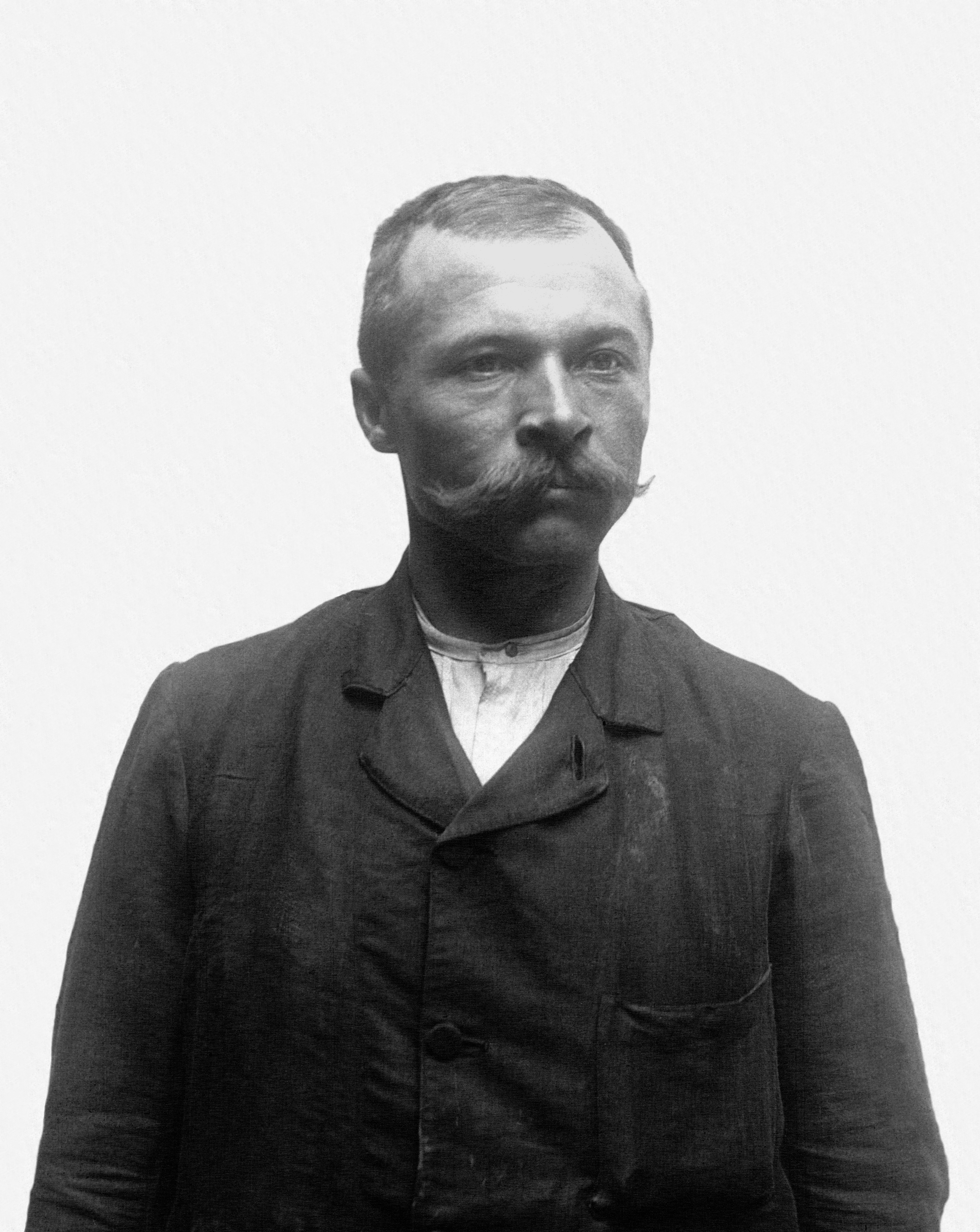 Maurice Garin (1871 - 1957), Winner of the first cycling Tour de France.